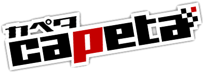 Capeta logo